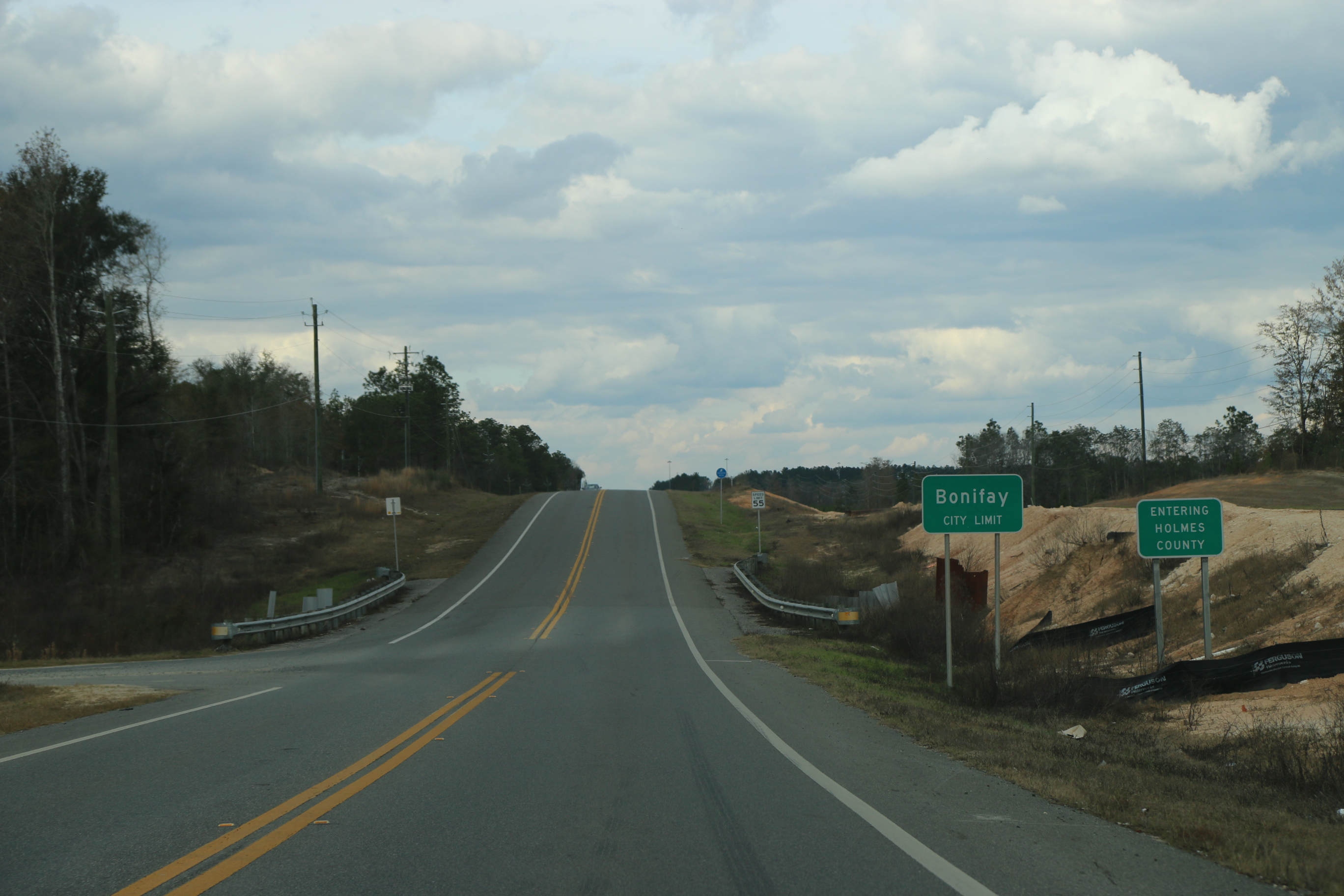 The Holmes County sign at Bonifay, Florida businesses on SR79.